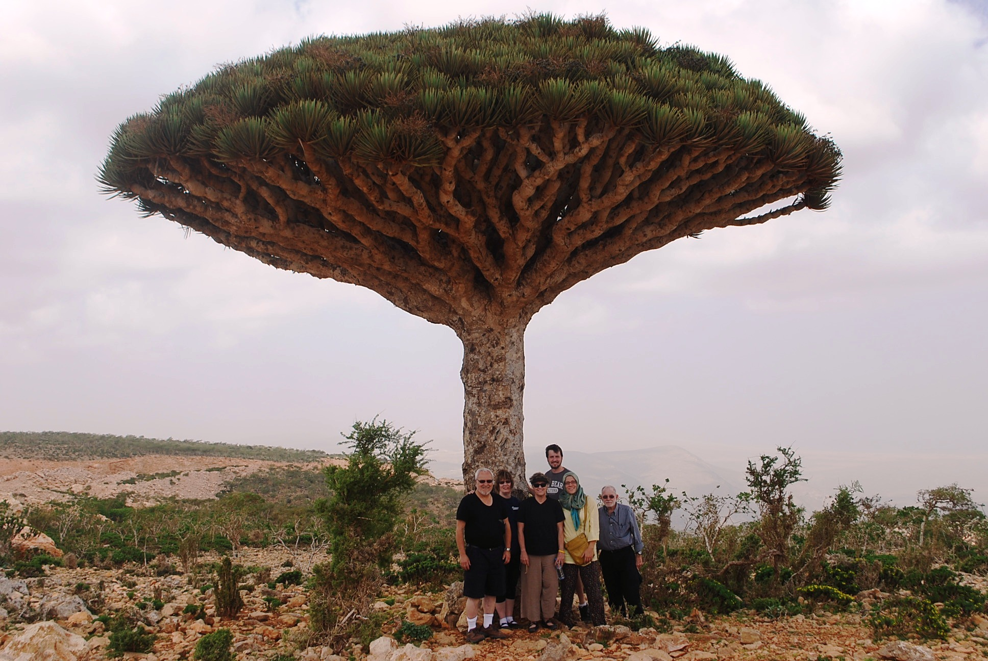 tree island yemen dragonblood socotra soqotra